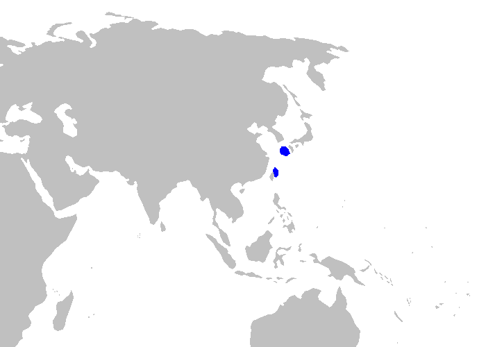 Distribution map for Etmopterus splendidus